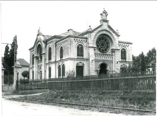 Orlova synagogue (Orlau) in Czechoslovakia, built in 1905 and destroyed by the Nazis in 1939. Photo after the construction of the tramway line. West façade.